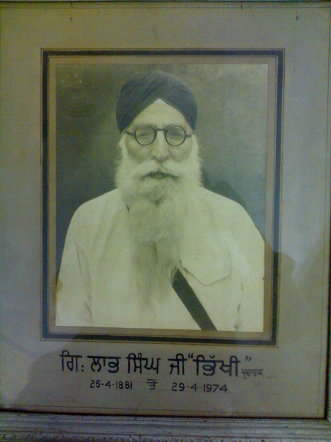 This is photograph of my great grandfather Gyani Labh Singh Bhikhi. he was a freedom fighter from India and Pracharak. i have uploaded an aticle of his history to wikipedia so that people could know about him. Wikipedia can have information about him from Indian Prime Minister office, President of India Office and Chief Minister of Punjab (India) office about his contributions in India's Independence.